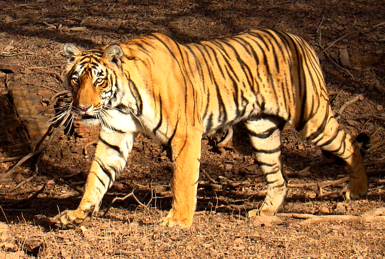 A Bengal tiger Panthera tigris tigris in the wild in Ranthambhore National Park, Rajasthan, India.